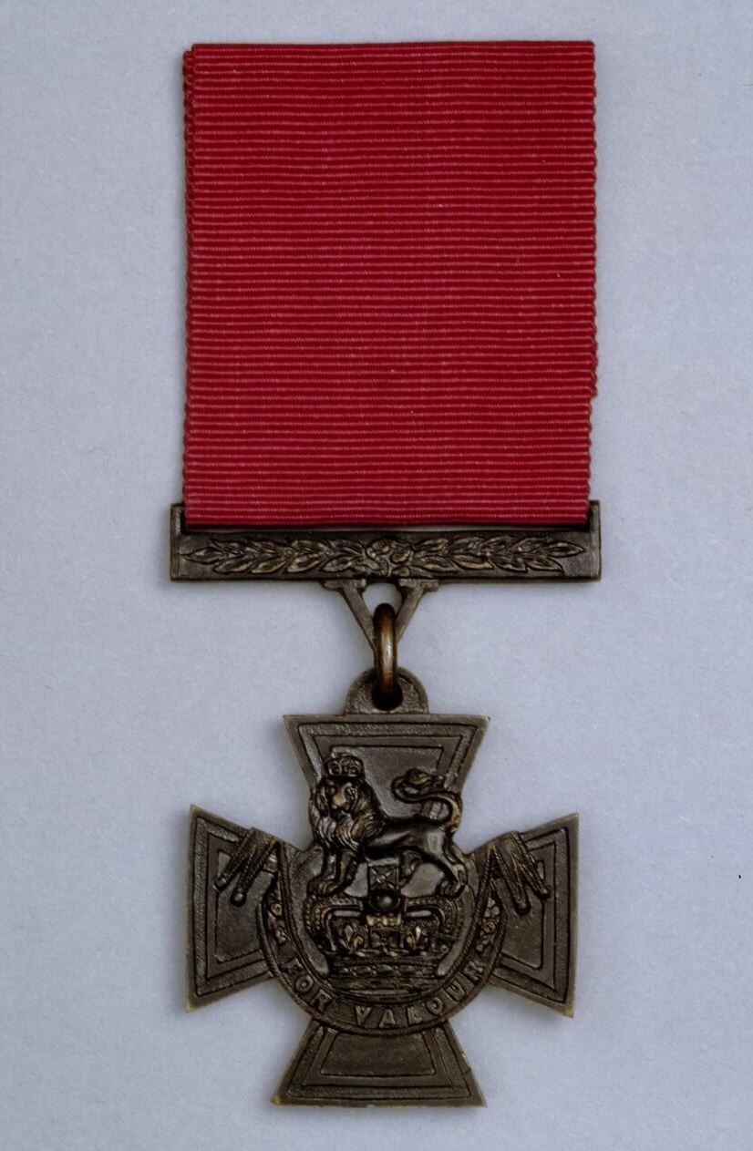 British Medals and Decorations Victoria Cross